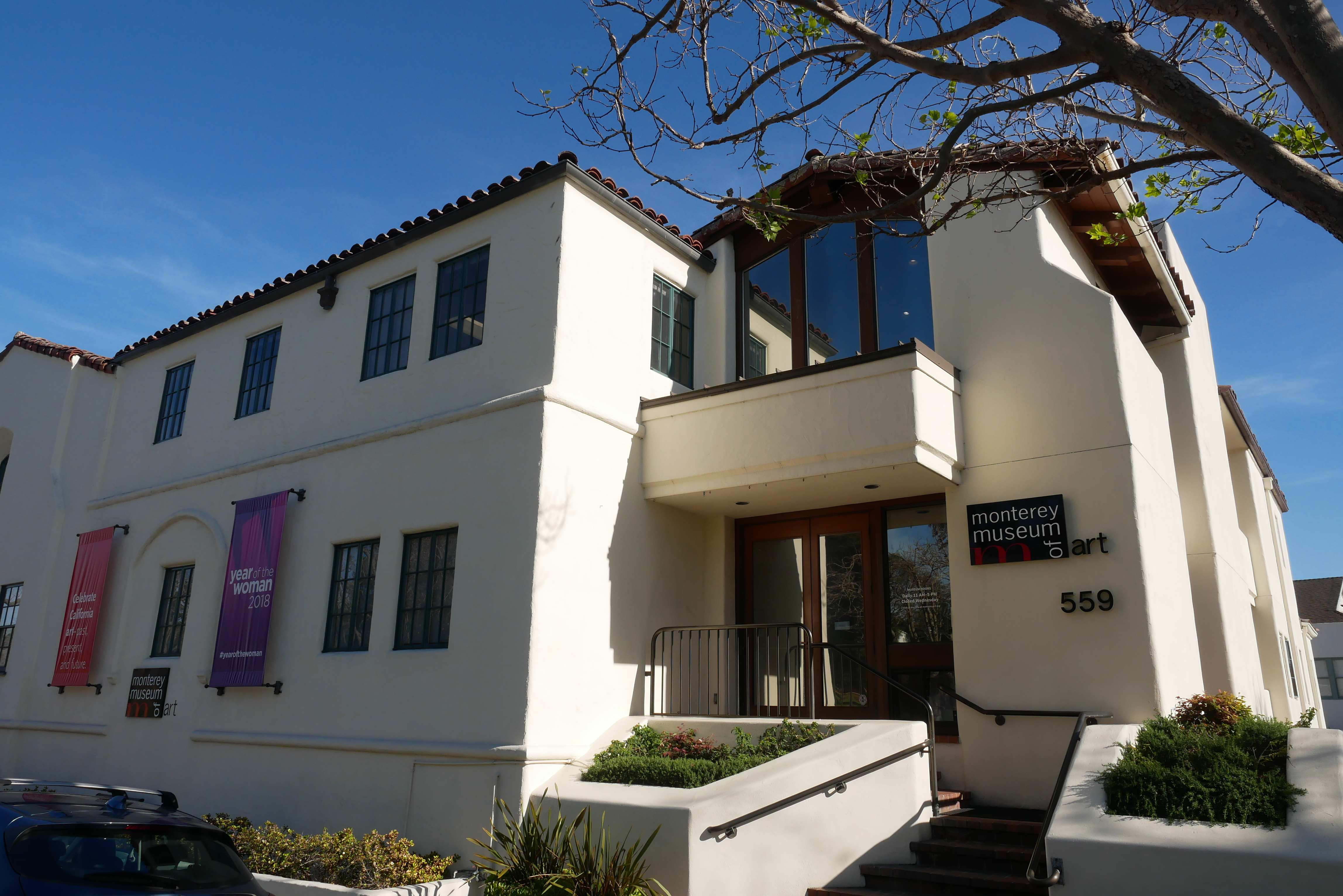 Monterey Museum of Art outside